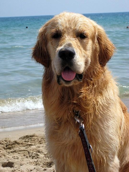 The dog-Golden Retriver